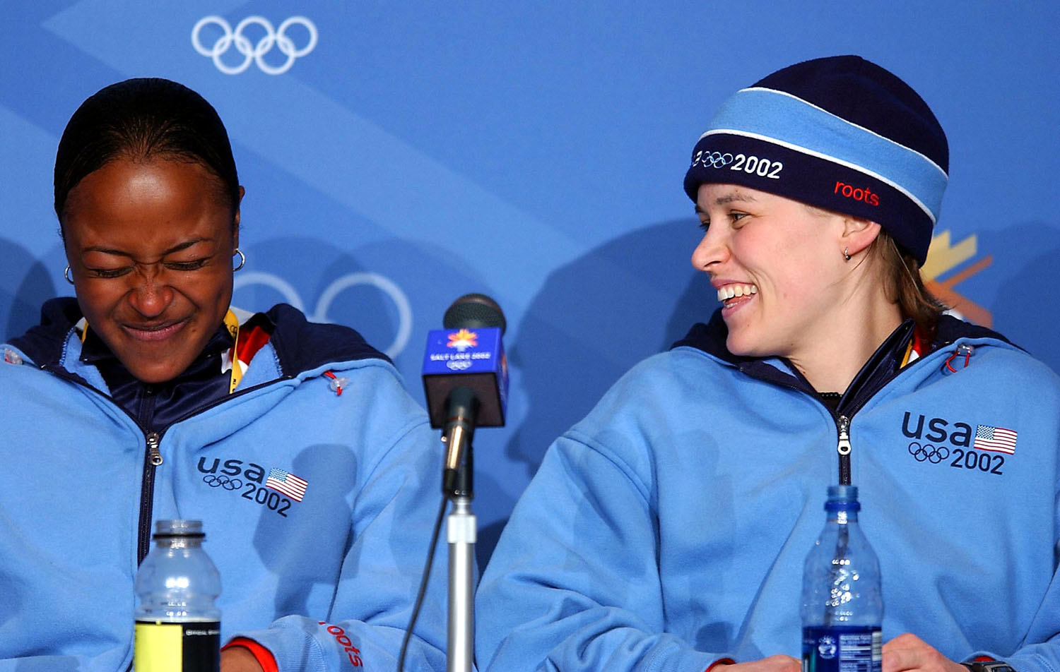 Vonetta Flowers (l) and World Class Athlete Spc. Jill Bakken of the Utah National Guard share laughter moments after winning the gold medal for the United States in women' two-man bobsled during the 2002 Winter Olympic Games